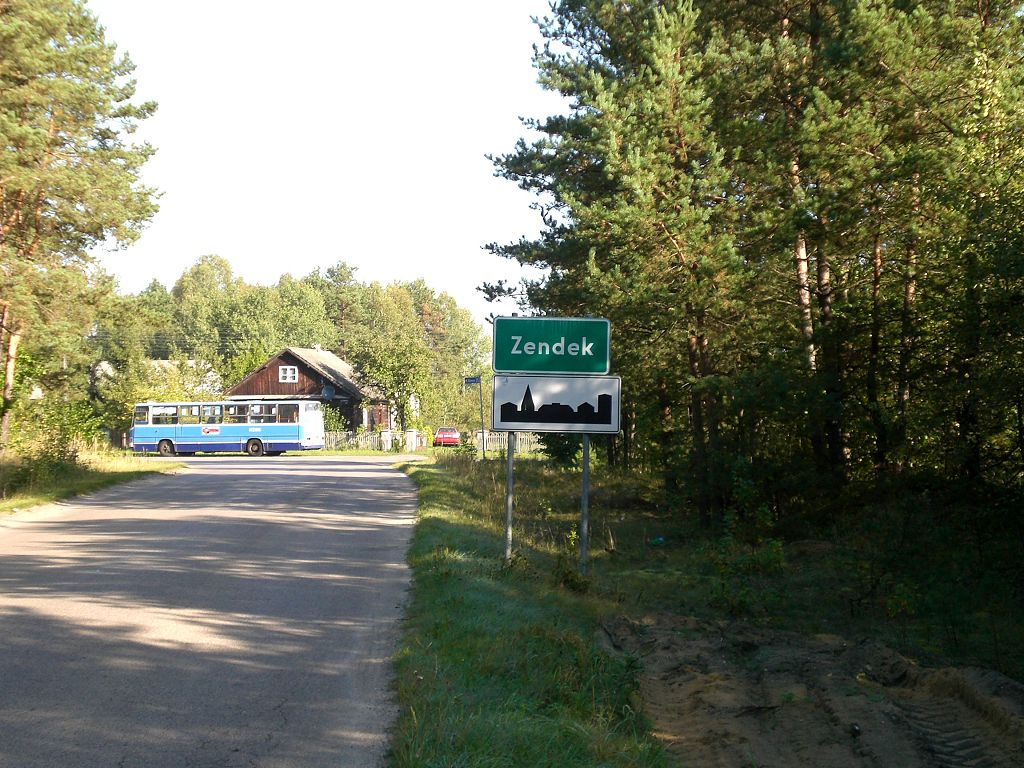 Nameplate from village Zendek